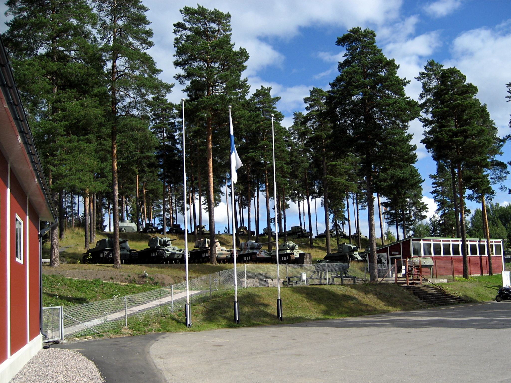 A general view over Parola Armoured Vehicle Museum in Hattula, Finland. On the left, the newly opened Hall 2, which houses some functional tanks and BTR's in a good condition. The carcases on the sloping hill in the background mostly lack their inners and engines. They are not protected from the elements and are in need of repair and maintenance.